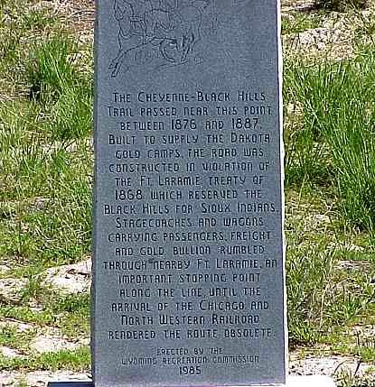 Photo of a marker on the Cheyenne - Black Hills Trail near Fort Laramie